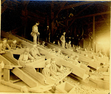 Breaker boys, Eagle Hill colliery, eastern PA